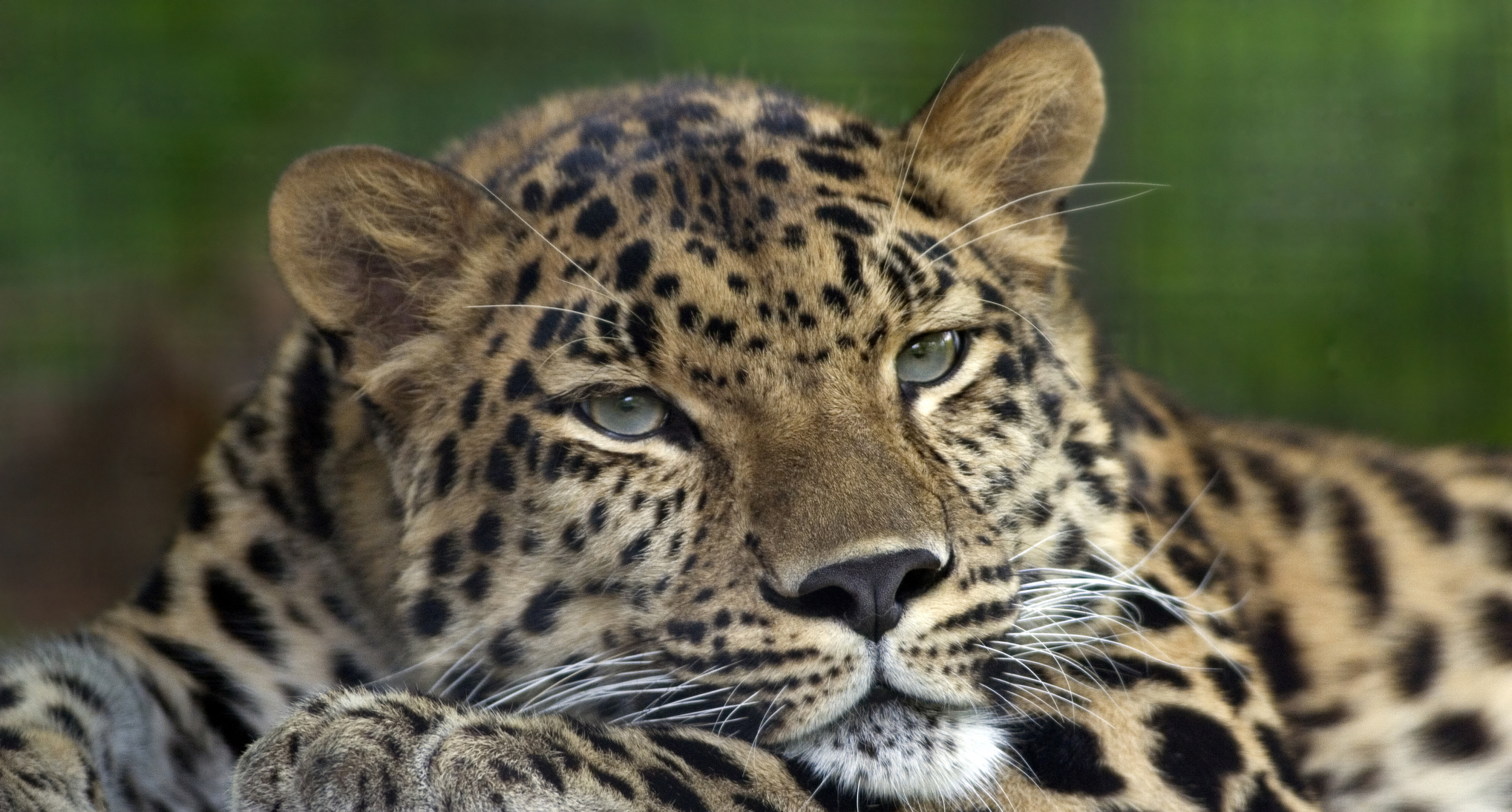 A photograph of an Amur Leoparden (Panthera pardus orientalis en ). Picture taken at and identified by the Pittsburgh Zoo. See upload history for additional information.